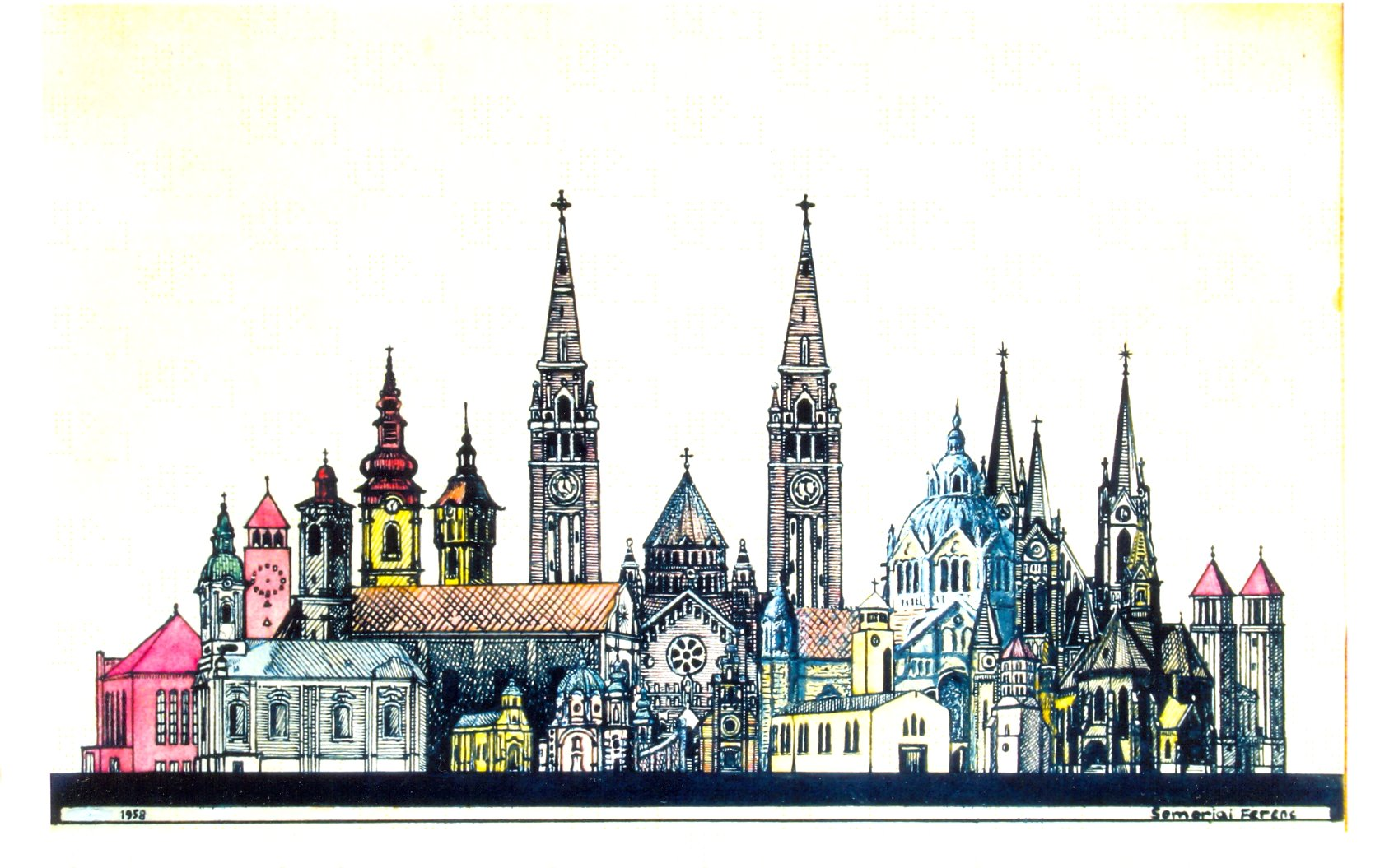 Graphic of Ferenc Somorjai, churches of Szeged